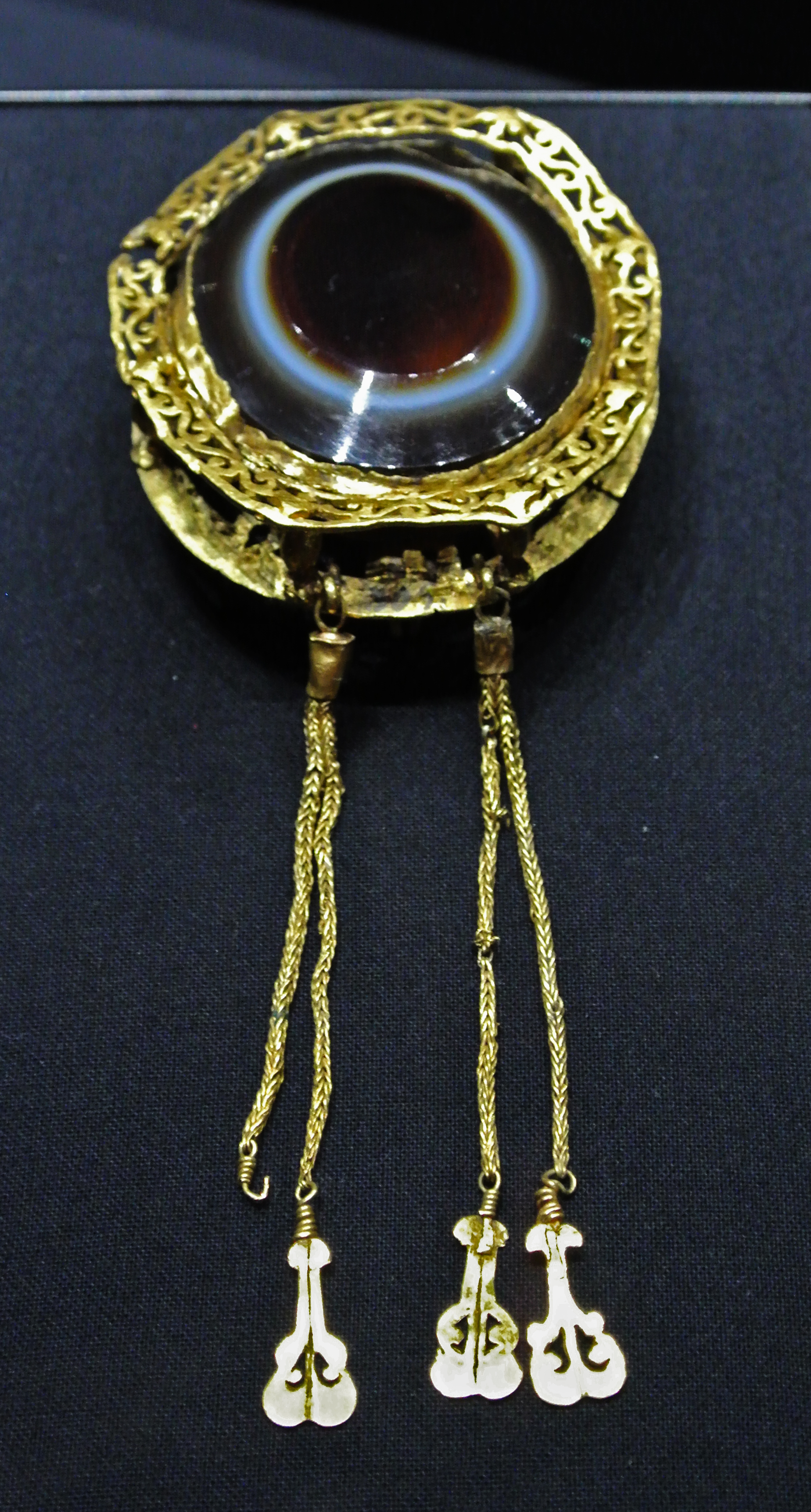 Roman onyx fibula